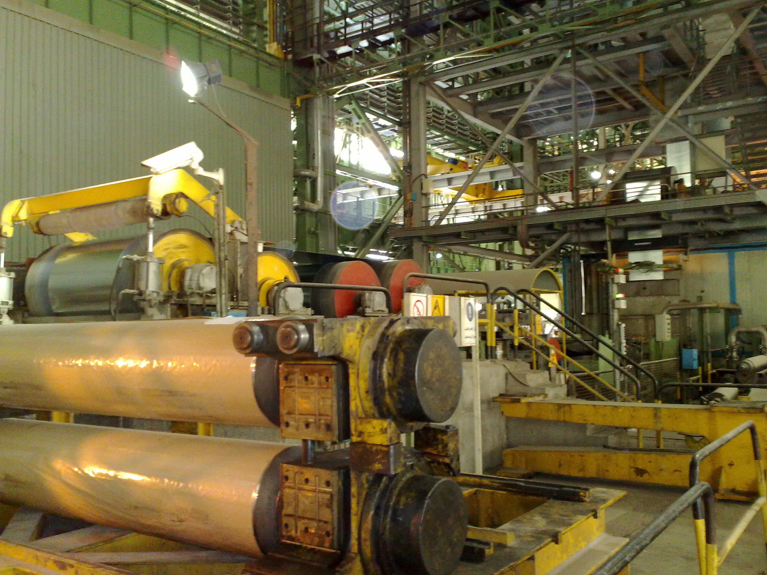 Foolad Mobarakeh Steel Mill. Isfahan.